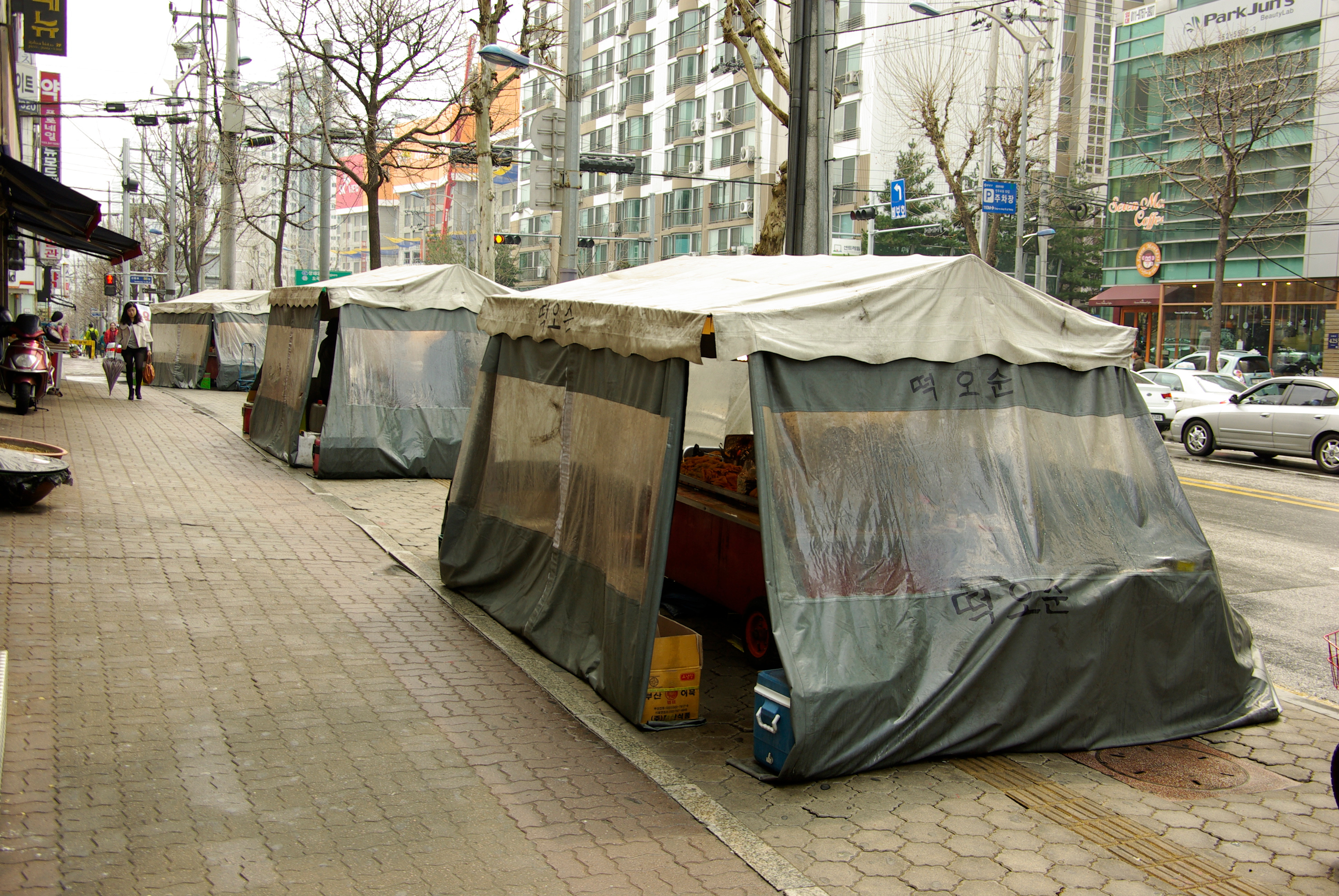 Pojangmacha - street food stalls in Seoul, South Korea